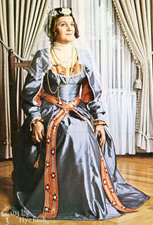 Taraz (national costume) of an Armenian woman from Tbilisi, Georgia (17th c.)